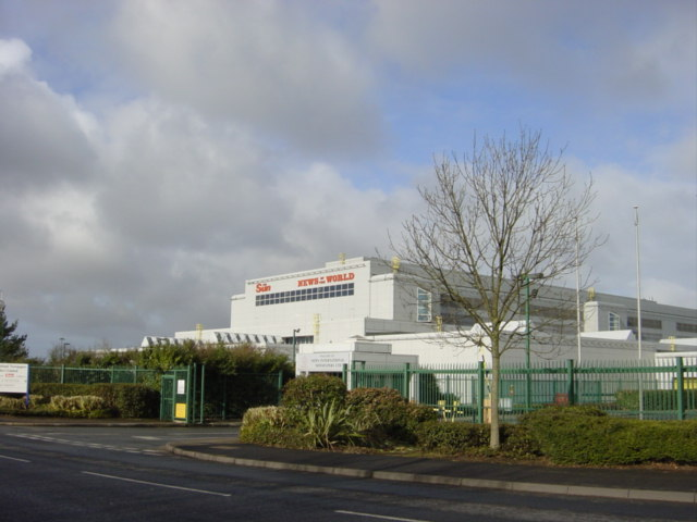 News International at Knowsley Industrial Park. The News International building at Knowsley Industrial Park where they print the Sun and News of the World newspapers